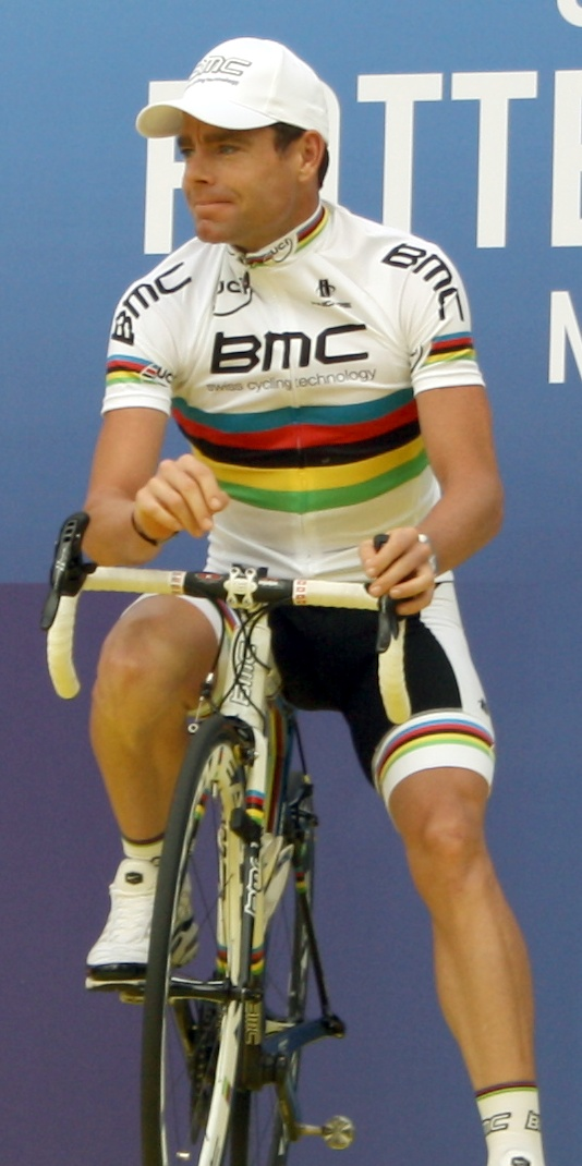 Cadel Evans at the team presentation of the 2010 Tour de France in Rotterdam